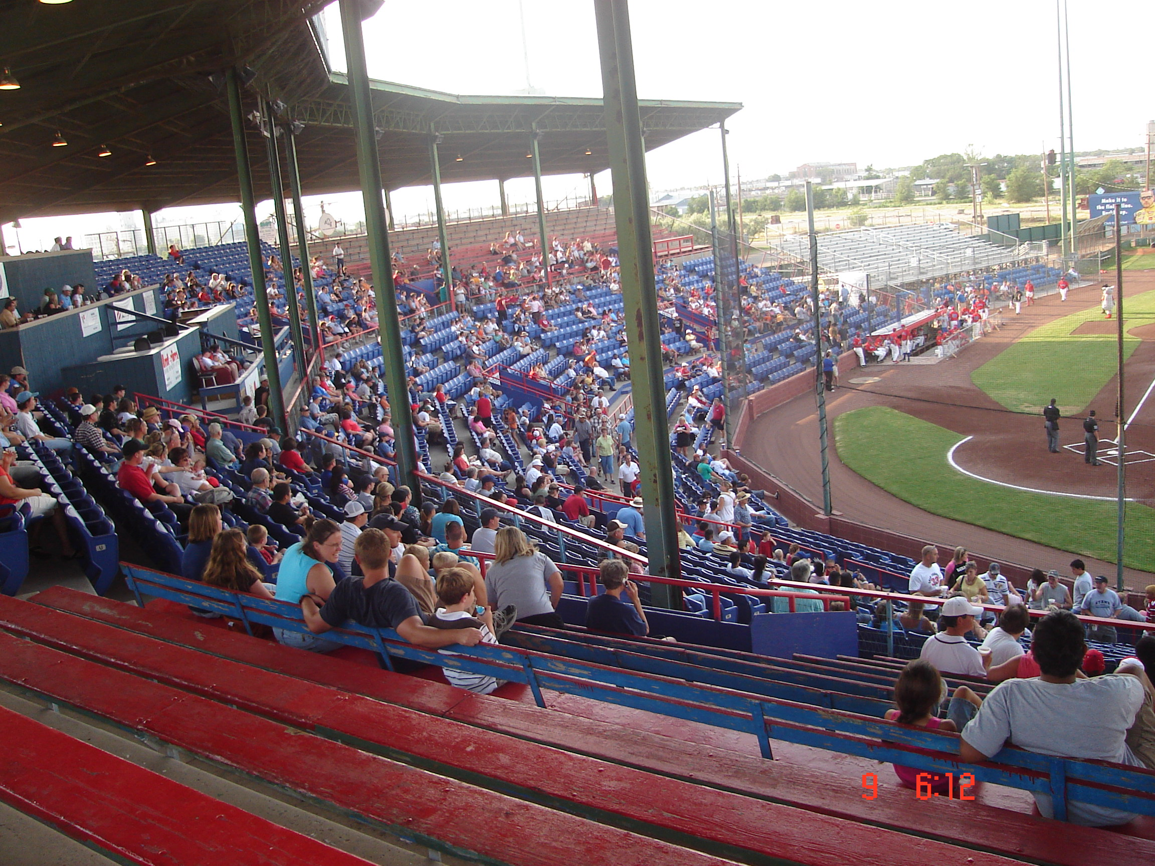 Shot of the ANB Dilla Villa in a game against the Edinburg Coyotes.